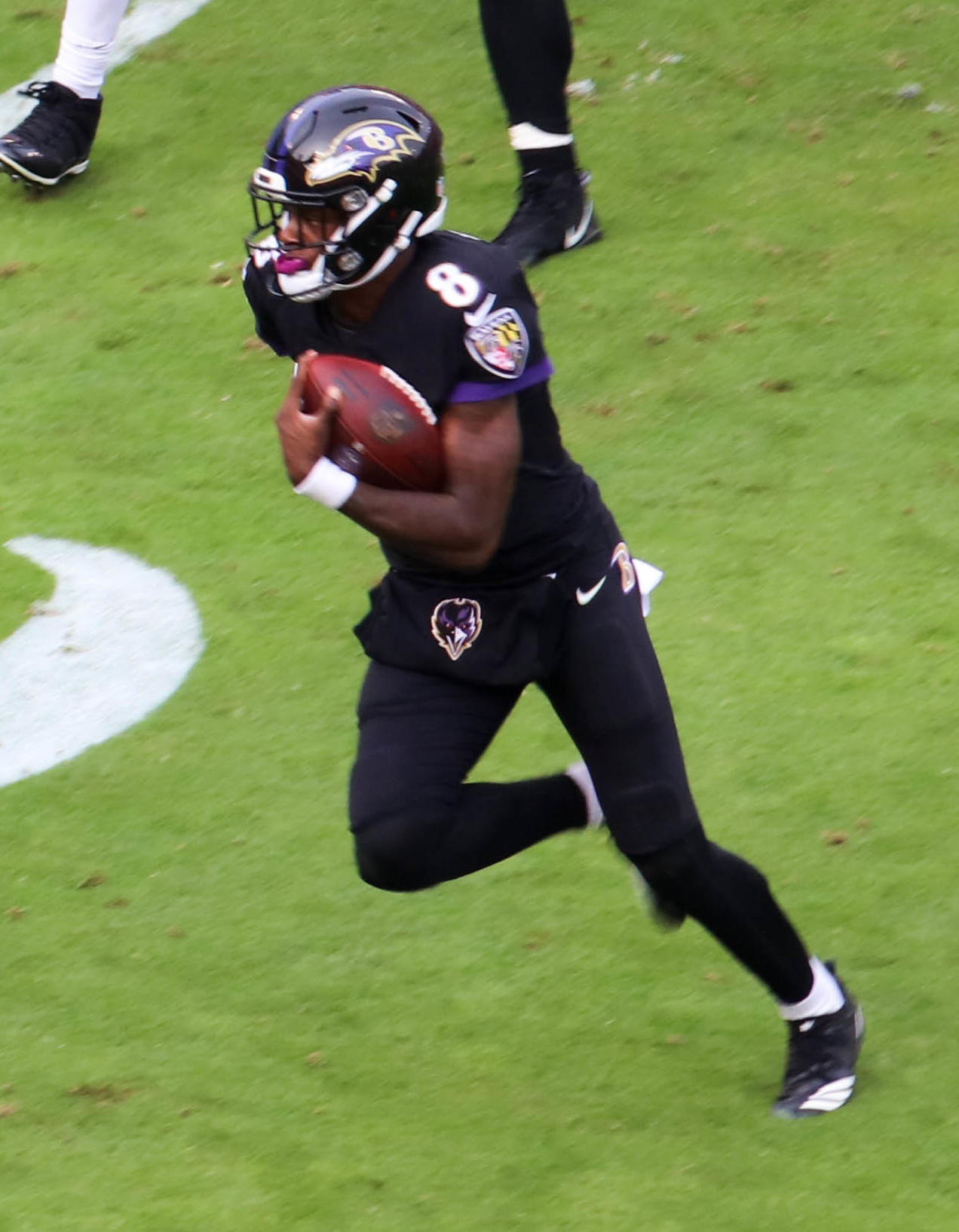 Lamar Jackson of the Baltimore Ravens runs the ball against the Cincinnati Bengals during a 2018 game at M&T Bank Stadium in Baltimore.